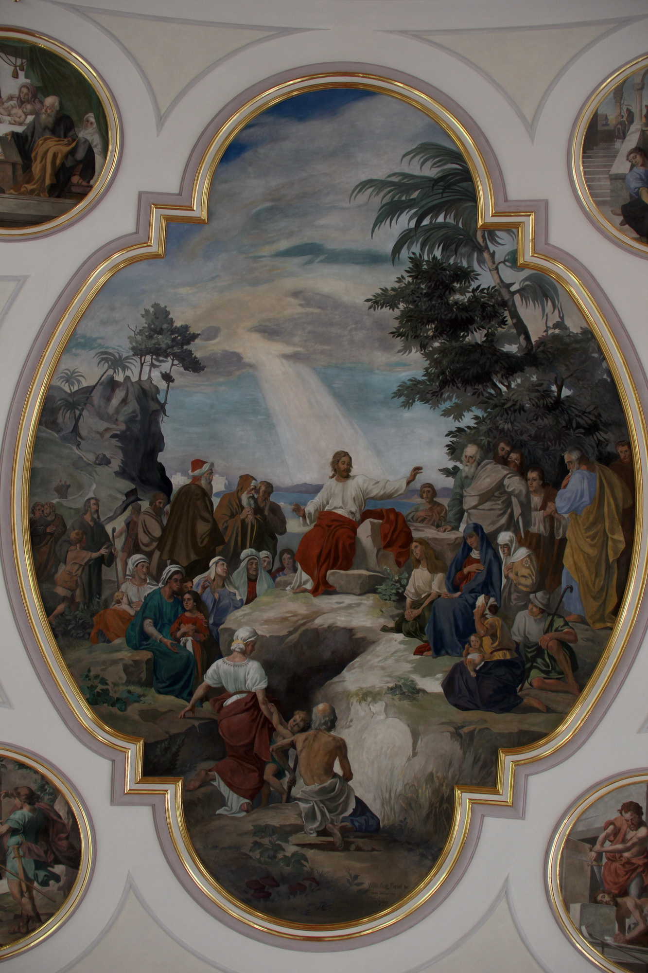 Church of St. Wolfgang Native nameSt. WolfgangkircheLocationOberwinkling, Lower Bavaria, GermanyCoordinates48° 53′ 10.67″ N, 12° 47′ 40.99″ E